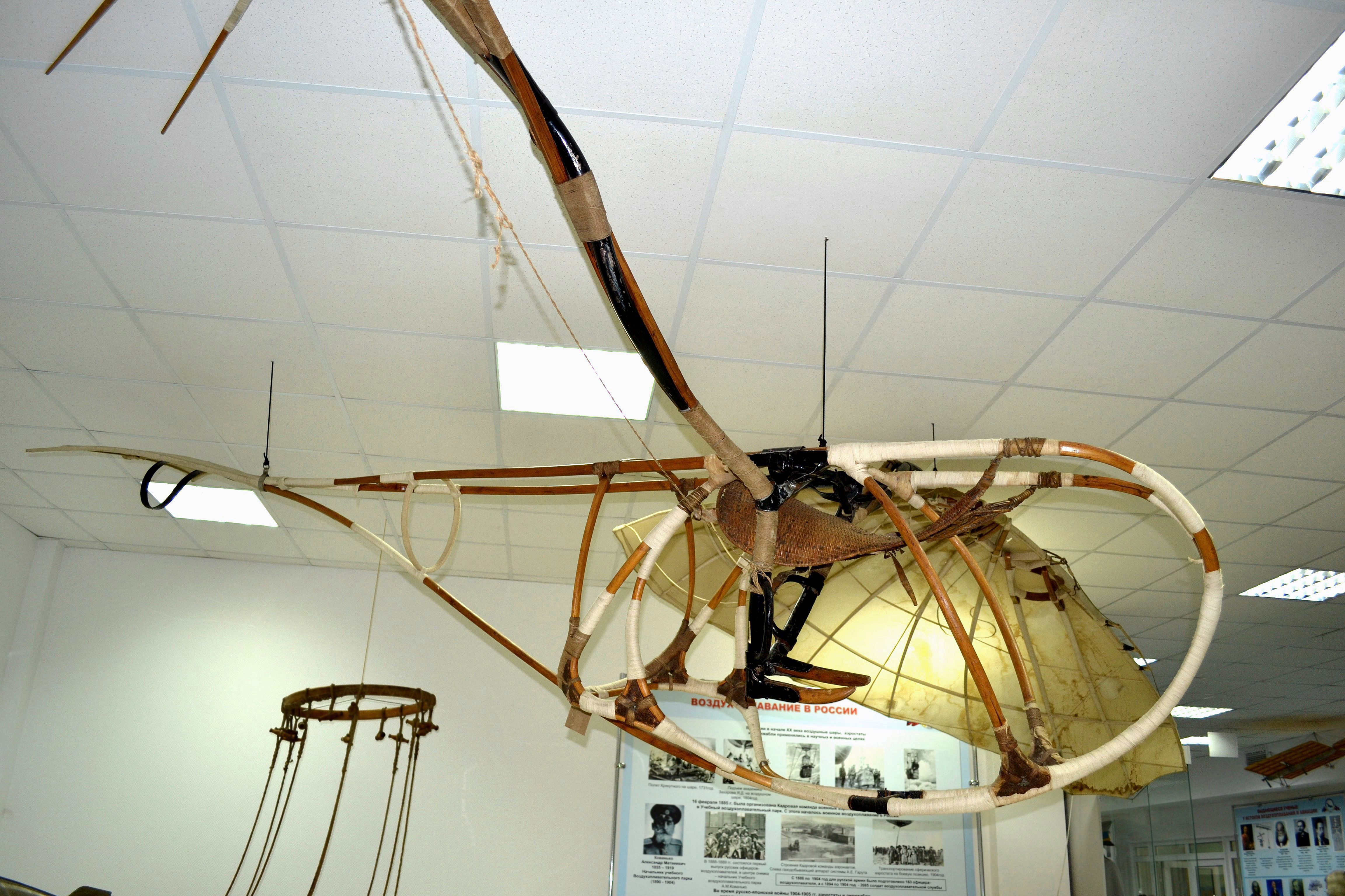 Letatlin No. 3, a human-powered ornithopter built in 1929—1932 by Vladimir Tatlin. Central Air Force Museum in Monino, Russia.